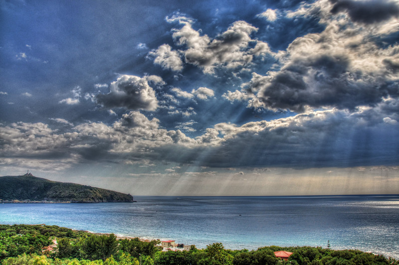 A view of Capo Palinuro from the patio of the Bar Santa Caterina at the center of the town of Palinuro. In Cilento and Vallo di Diano National Park — in Campania.